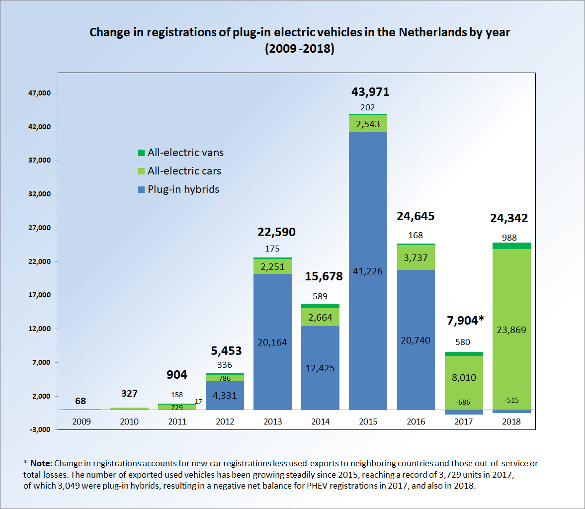 Graph showing historical series of annual change in plug-in electric vehicle registrations in the Netherlands from 2010 to 2018. My own work. Data series was taken from Agentschap NL - Ministerie van Economische Zaken available here. Figures 2015-2017 available hereSpecial Note: Change in registrations accounts for new car registrations less used-exports to neighboring countries and those out-of-service or total losses. The number of exported used vehicles has been growing steadily since 2015, reaching a record of 3,729 units in 2017,of which 3,049 were plug-in hybrids, resulting for the first time in a negative net balance for PHEV registrations in 2017. Figures 2018: the same negative balance took place in 2018 for PHEVs.